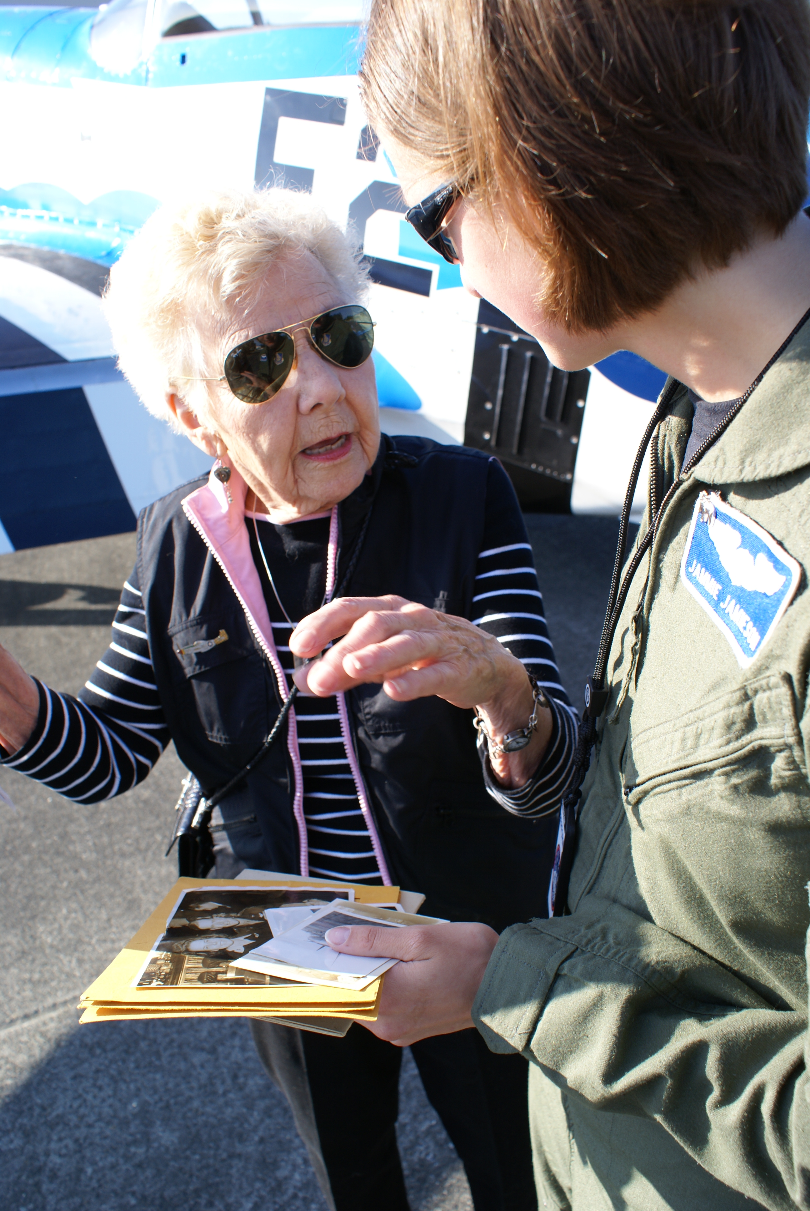 Dorothy Olsen, a former Women Airforce Service Pilot, meets with Capt. Jammie Jamieson, the first operational and combat-ready female pilot of the F-22 Raptor, here Sunday at the McChord Air Expo 2008. Captain Jamieson, currently stationed at Elmendorf Air Force Base, Alaska, is the mobility flight commander for the 525th Fighter Squadron. Photo and text from